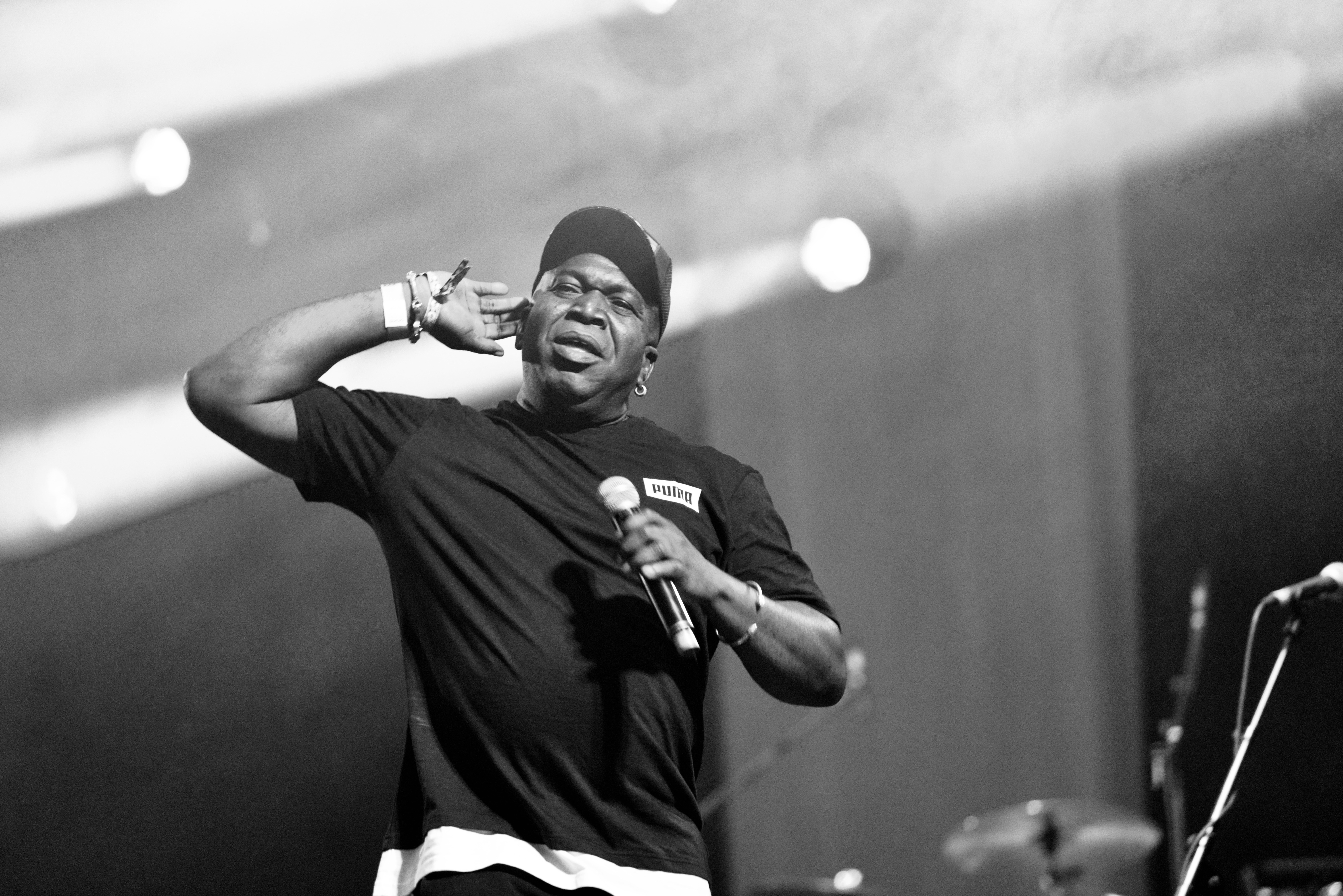 Barrington Levy in concert at Reggae Geel August 3 2018